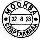 The first Soviet special sports cancel "Moscow Spartakiada", 1928